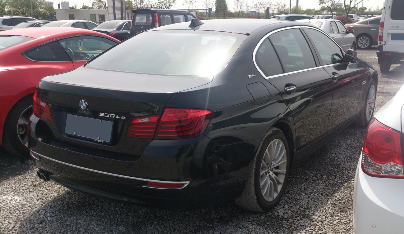 BMW 5-Series F18 Le photographed in Anting, Shanghai municipality, China.